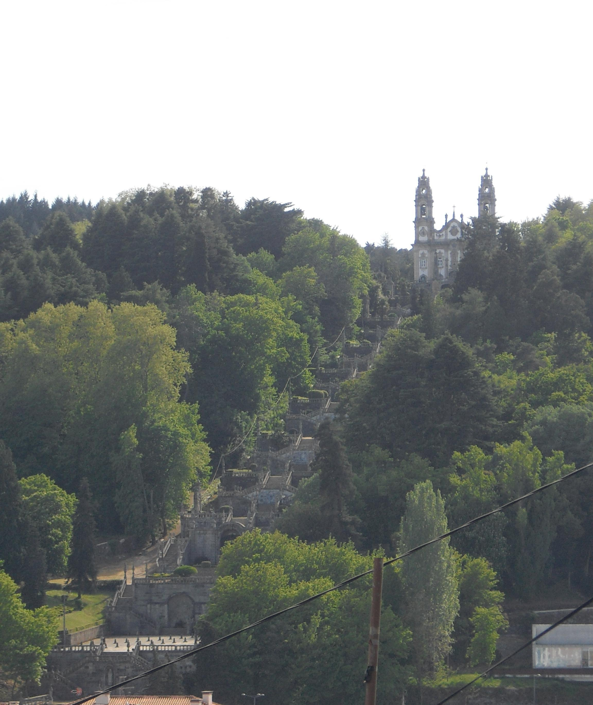 This file was uploaded for Wiki Loves Monuments in Portugal with the unique identifier 73815.